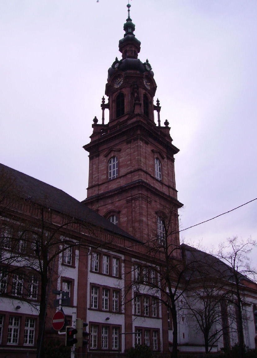 church in Mannheim, Germany